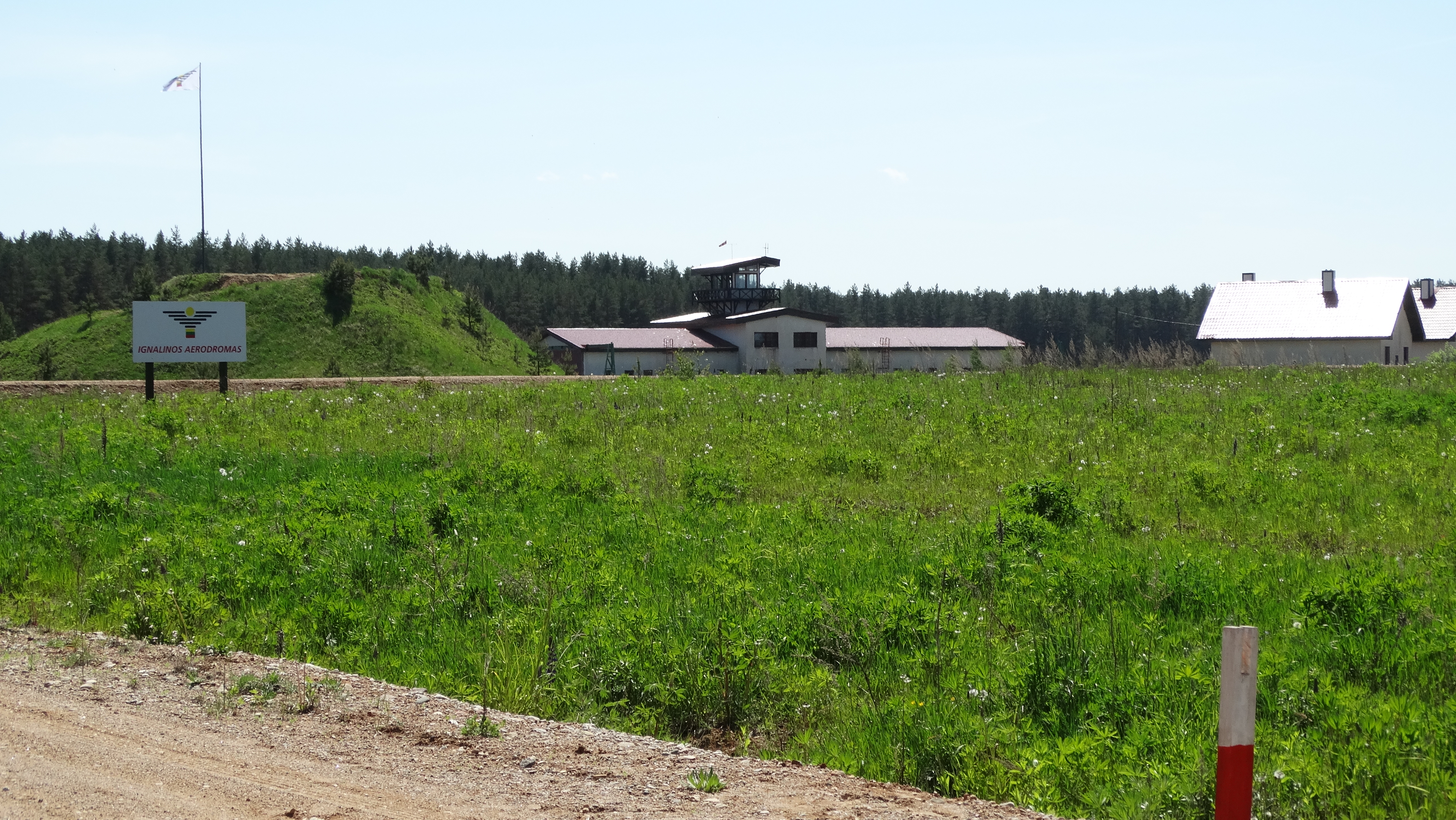 Ignalina aerodrome, Lithuania